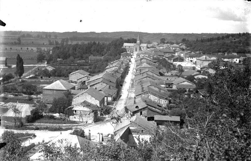 I. Weltkrieg 1914-1918 Argonnen, Senue; Oktober 1915 Information added by Wikimedia users.